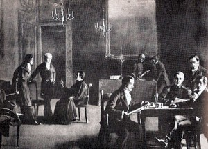 The First Assembly, first patriotic goverment of Argentina after the May Revolution